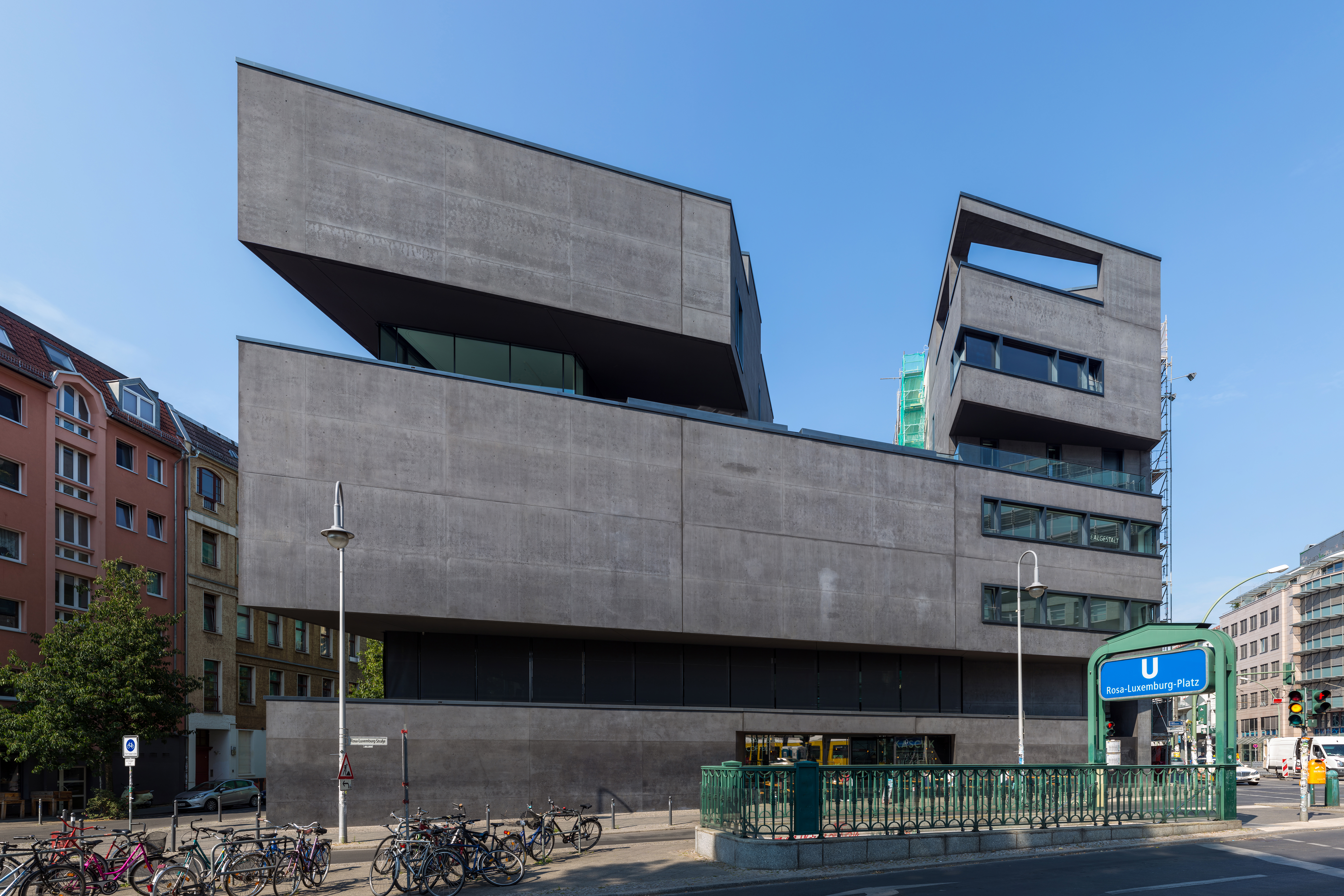 Residential and commercial building Linienstraße 40 in Berlin-Mitte as seen from east. Architects: Roger Bundschuh and Philipp Baumhauer in cooperation with Cosima von Bonin.